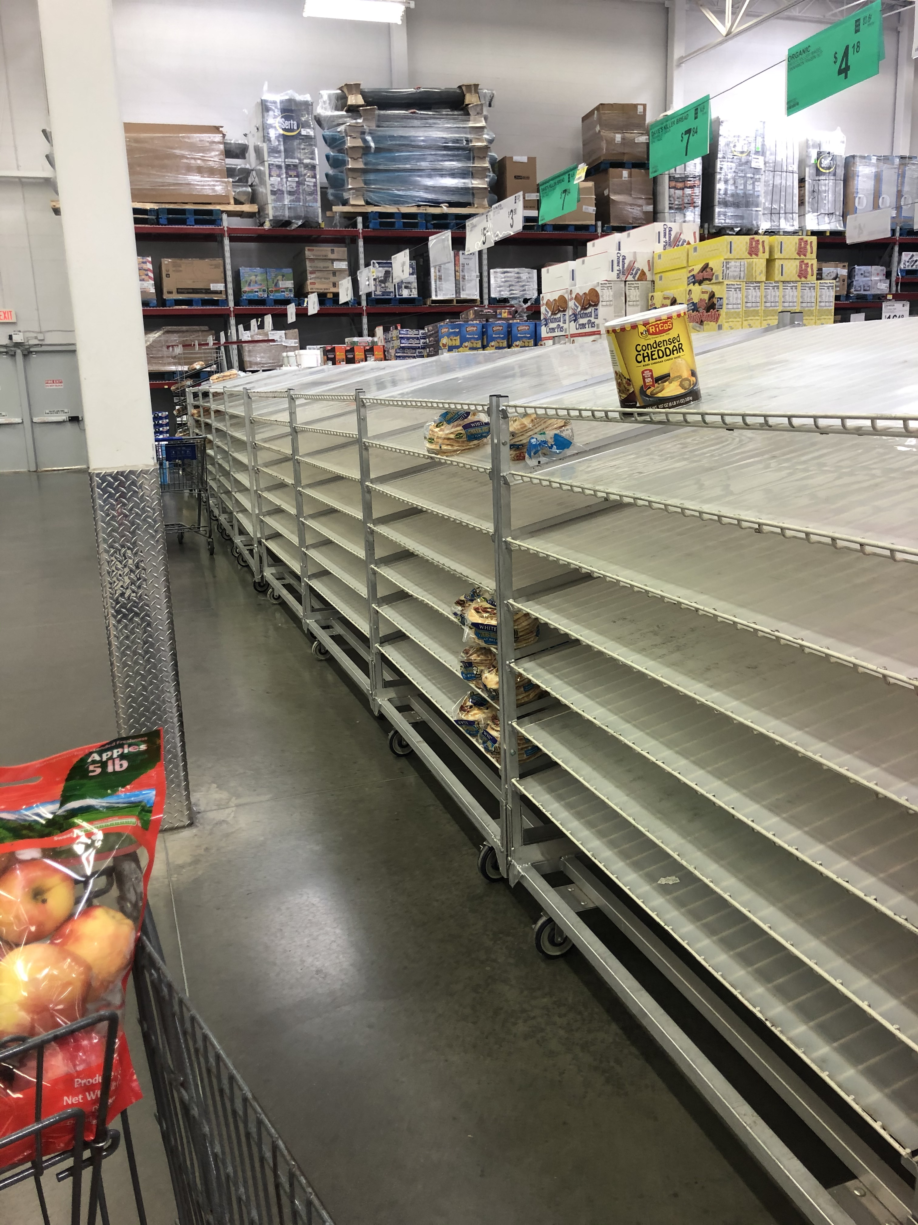 Panic buying at the Sams Club in Lufkin, Texas on March 13, 2020 in response to the coronavirus pandemic in Texas and the world.